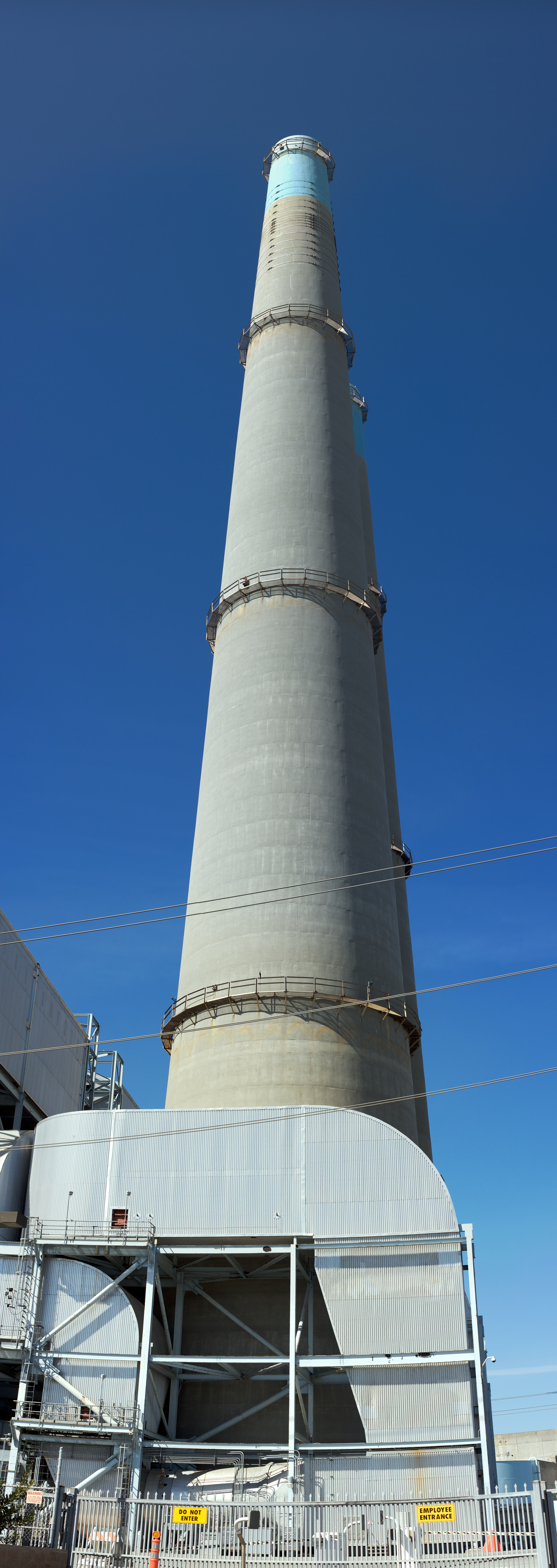 One of the smoke stacks at Moss Landing Power Plant. Stitched from multiple images using Hugin.